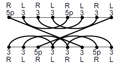 Simplest 7 prop 4 beat 2 person pass juggling pattern according to Beever, Ben (2001). "Siteswap Ben's Guide to Juggling Patterns", p.60, . Template:Webarchive, accessed: 11 3 2016. Depicted as a ladder diagram with a rail per juggler.